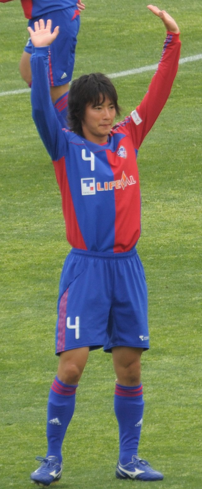 Hideto Takahashi cropped from DSC_4315